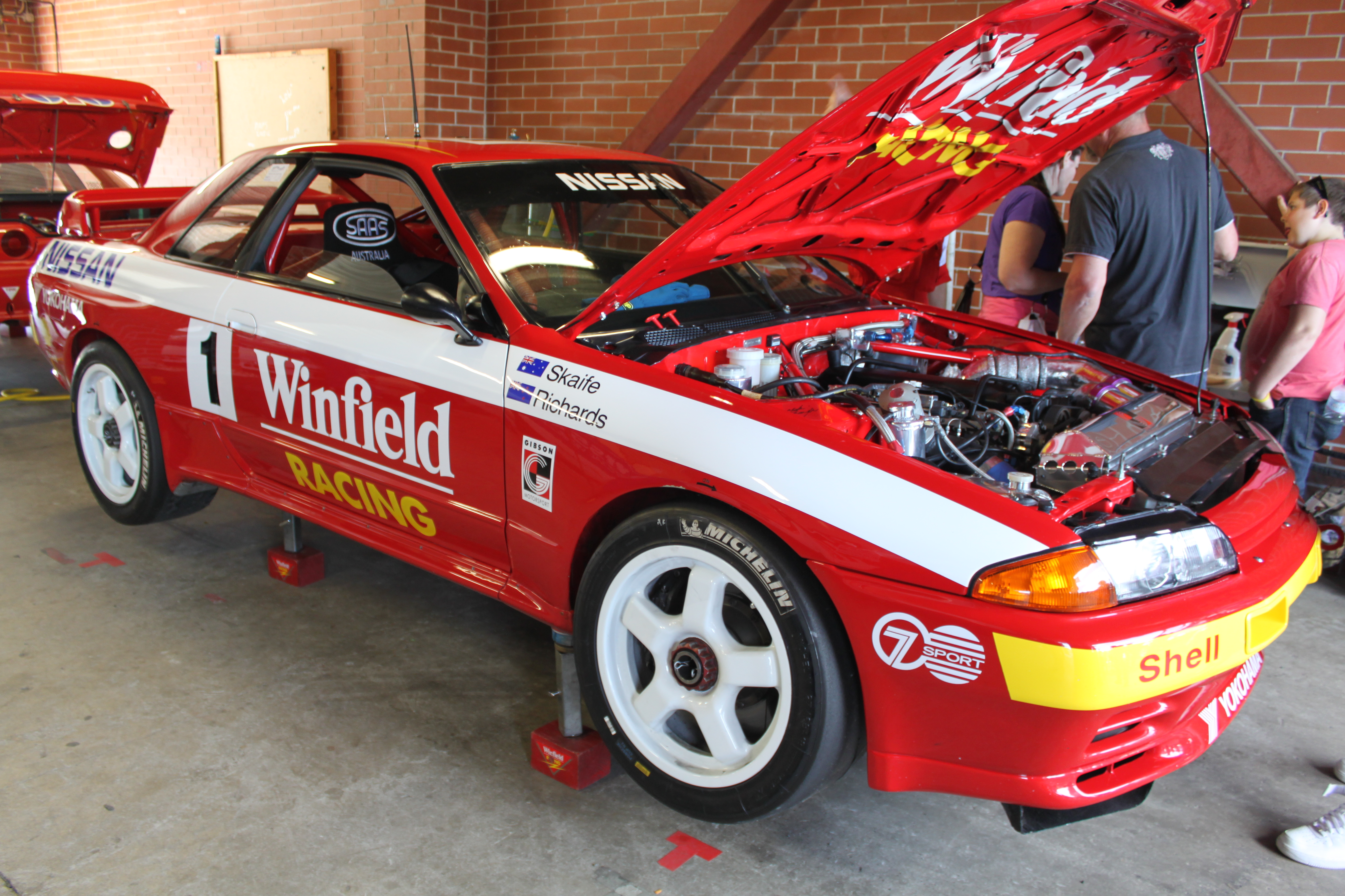 Nissan R32 GTR Group A